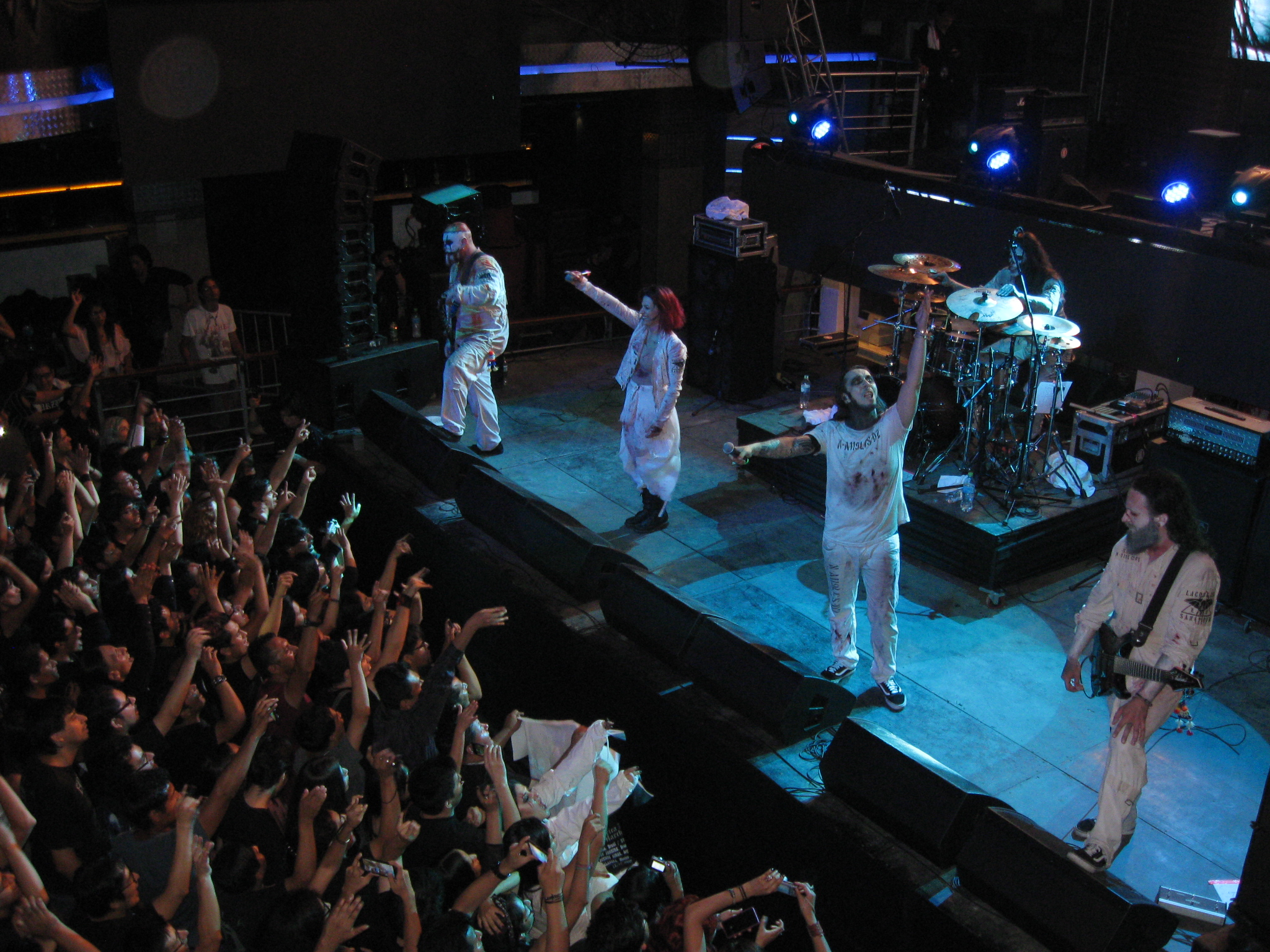 Picture of italian gothic metal band Lacuna Coil performing live in Lima, Peru, 14th March 2017 during their Delirium World Tour 2017.